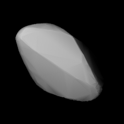 3D convex shape model of 254 Augusta, computed using light curve inversion techniques. J. Hanuš, J. Ďurech, M. Brož, B. D. Warner (June 2011). "A study of asteroid pole-latitude distribution based on an extended set of shape models derived by the lightcurve inversion method". Astronomy and Astrophysics 530: A134. ISSN 0004-6361. arXiv